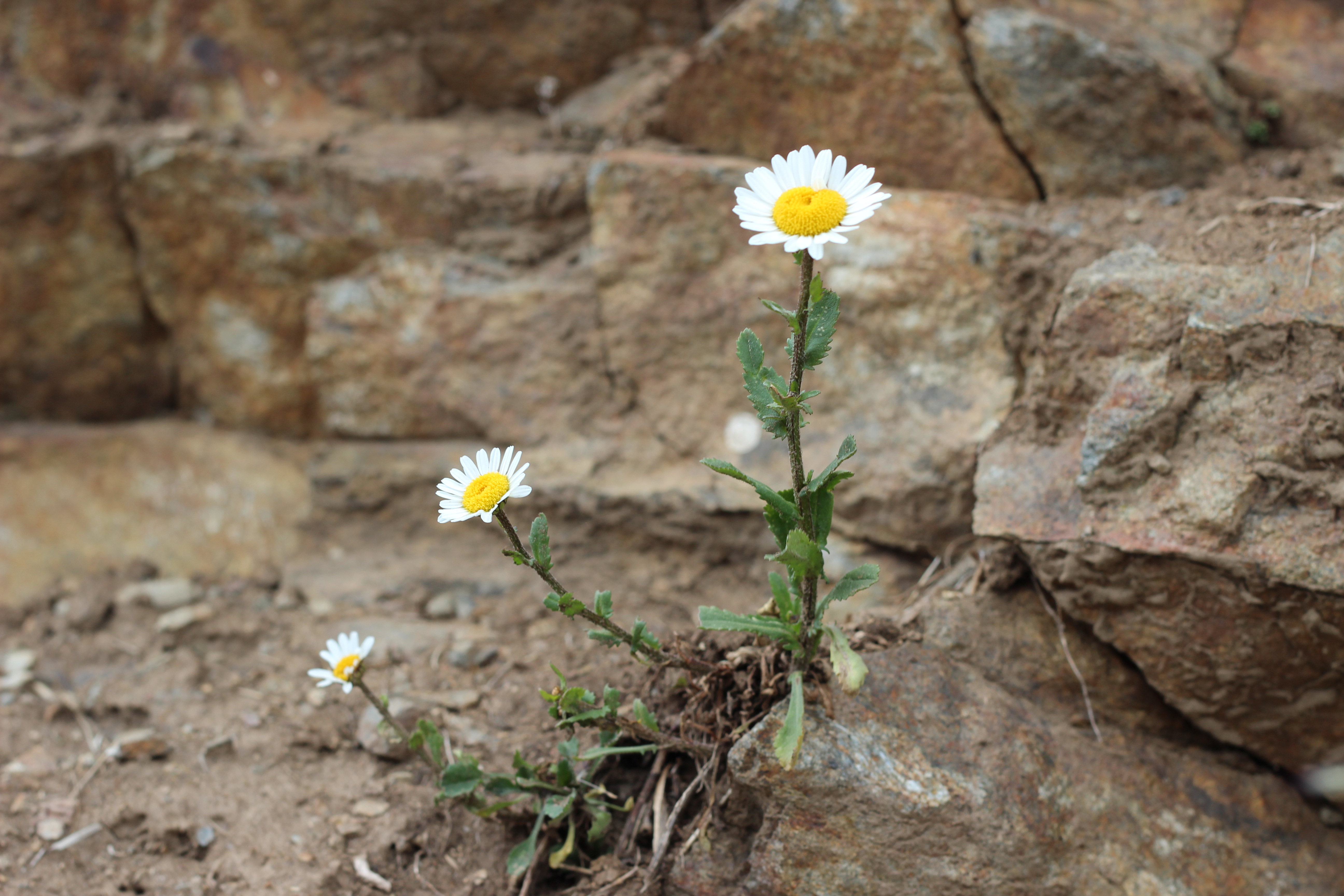 Leucanthemum ircutianum